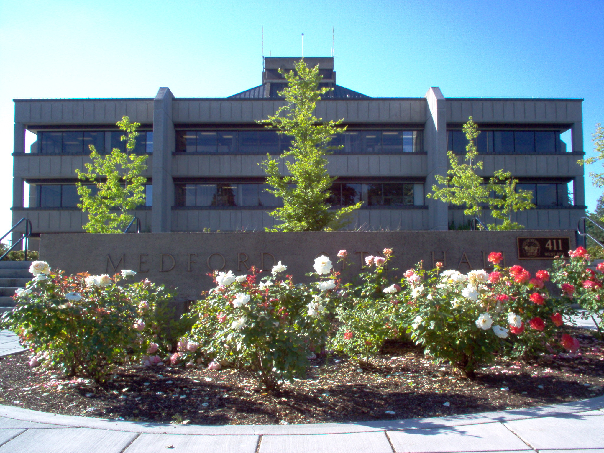 The Medford City Hall building was constructed in en:1968, and houses the police department, municipal court, mayor's office, and various other municipal department offices. The building underwent a multi-million dollar remodelling in 2000 and 2001. The project consolidated some departments, which provided more space for them. The Medford City Police Department was particularly expanded, now occupying three floors in the building. [1] [2] Contents 1 Photo Credit 2 References 3 Licensing 4 Original upload log Photo Credit I took this picture myself Zab 16:44, 21 May 2007 (UTC) References ↑ Medford City Hall may get a remodeling at ↑ Work to begin on city hall at